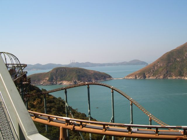 Ap Lei Pai as viewed from Hong Kong Ocean Park. Photo taken by myself (User:Sl) on November 2004. Small Ap Lei Pai is on the left, connected to Ap Lei Chau on the right. Lamma Island is visible in the background. 鴨脷排，從香港海洋公園拍攝。